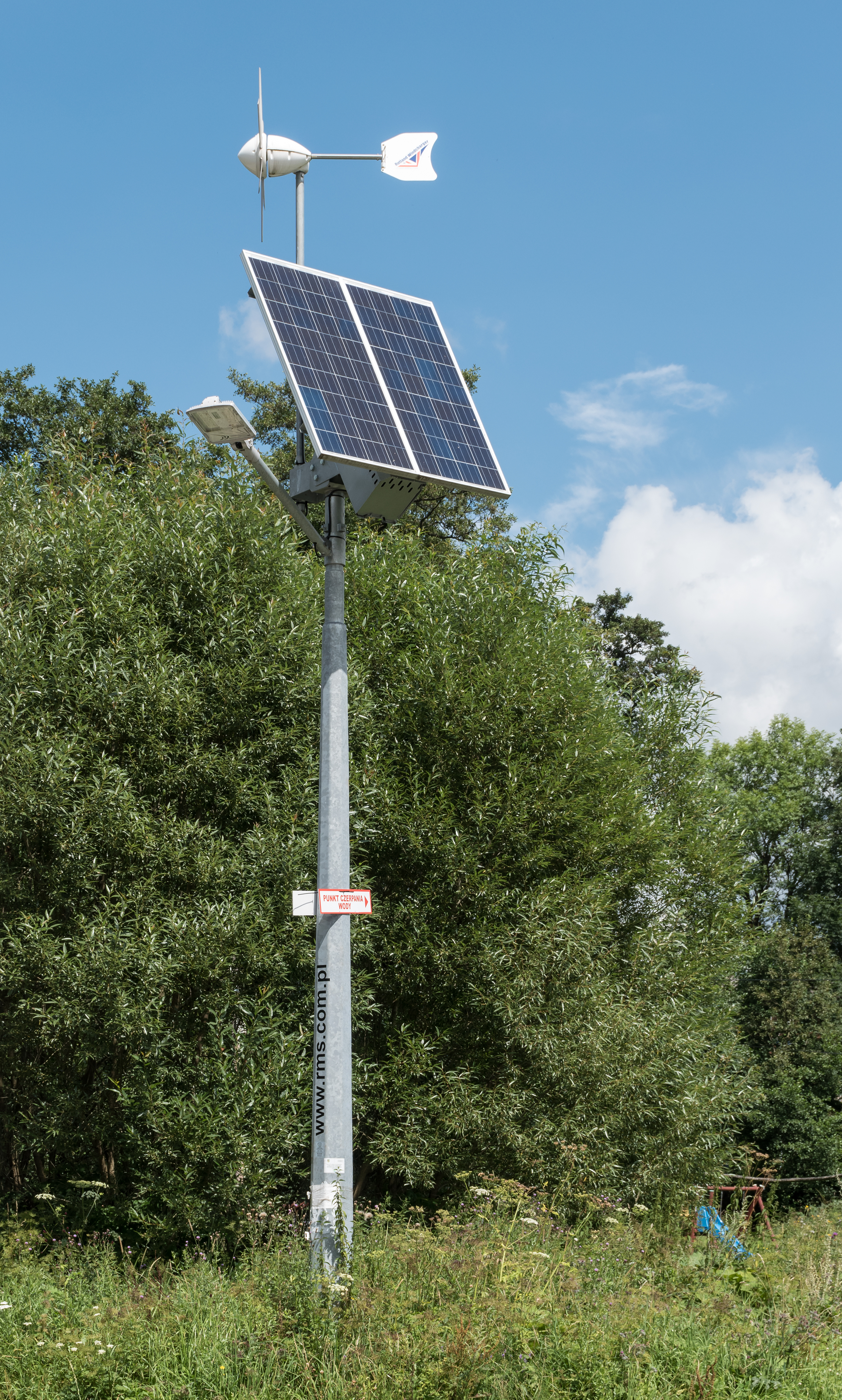 Street light in Pisary